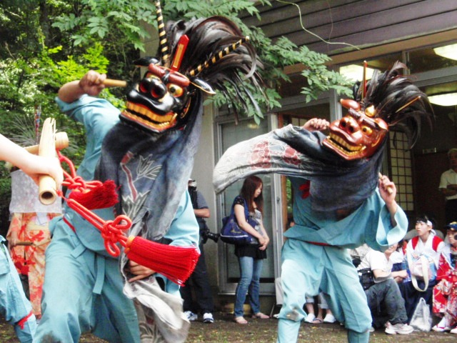 Sasara-Jishi in Tabayama Gion Festibal, Yamanashi, Japan